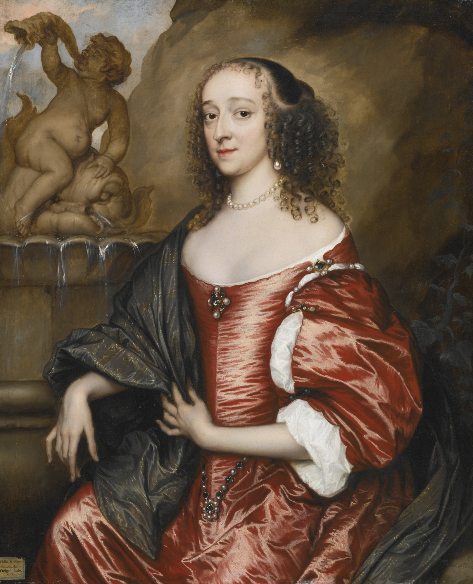 Amalia von Hesse-Kassel (1626-1693) was the daughter of William V, Landgrave of Hesse-Kassel and Amalia Elizabeth von Hanau-Münzenberg. In 1648 she married Henry Charles de la Trémoille, Prince of Taranto, son of Duke Henry de Trémoille and of Thouars and Maria de la Tour d’Auvergne